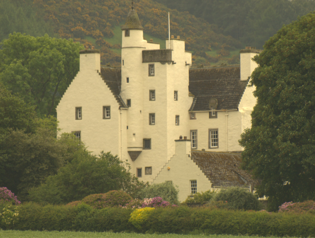 This castle is seen from Wicks Of Baiglie Road, Bridge of Earn. It is unusually painted. Originally built as square tower in 1570 for a Geo.Auchinleck. It was completely refurbished in 1915 to the highest quality, extra wings added to form a quadrangle with an inner courtyard. William Millar a Glasgow shipping and transport magnate had puchased the building and surrounding land five years earlier.